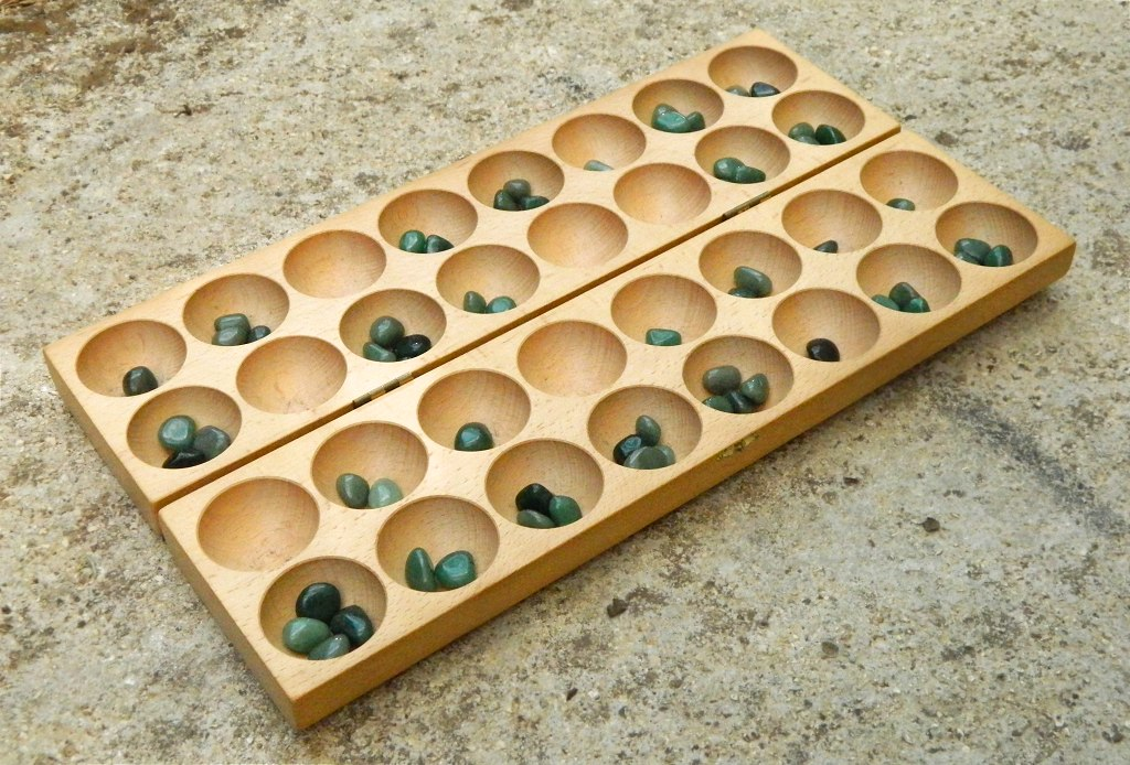 A modern Bao/Omweso board, as sold in Europe, with jade gemstones.